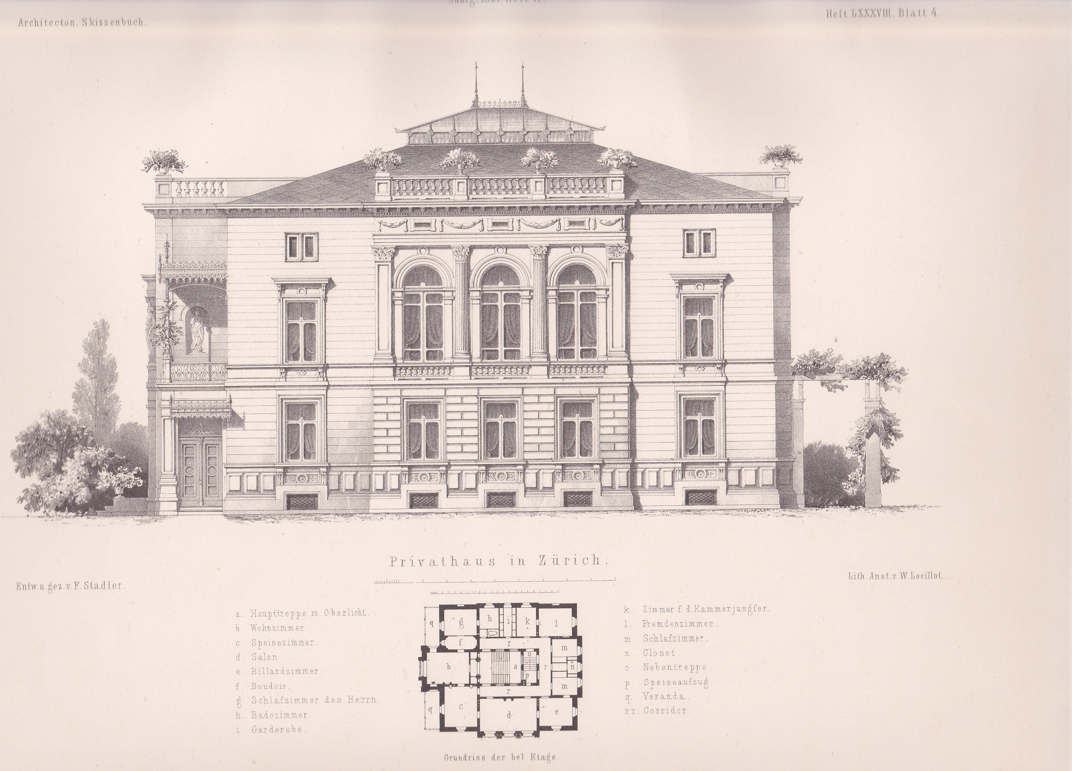 Villa "Zum neuen Sihlgarten", built by Swiss architect Ferdinand Stadler (1813-1870) between 1856 and 1859 for silk manufacturer Martin Bodmer-Keller at the Sihlstrasse in the centre of Zurich, published in "Architekten Skizzenbuch", edited by v. Ernst & Korn in Berlin, 1867, volume VI